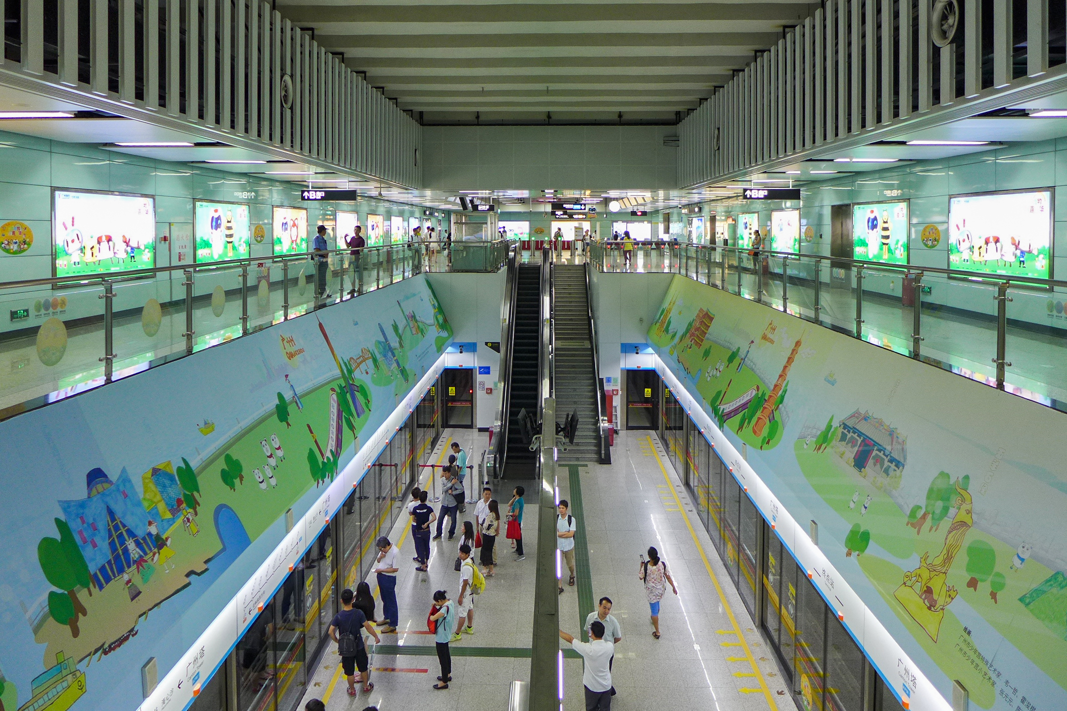 Canton Tower Station